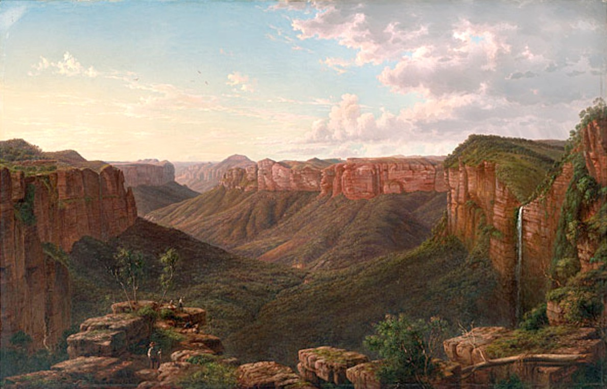 Govett's Leap and Grose River Valley, Blue Mountains, New South Wales, oil on canvas, 68.5 cm x 106.4 cm